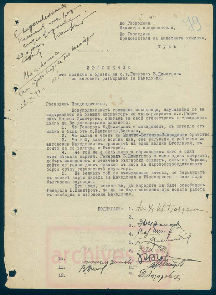 A Letter in Support of General Boris Dimitrov - 1